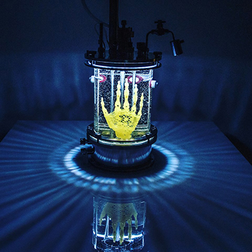 "REGENERATIVE RELIQUARY" by Amy Karle, 2016 bioart sculpture of hand design 3D printed / bioprinted on microscopic level in trabecular structure out of pegda hydrogel to create scaffold for human MSC stem cell culture into bone.